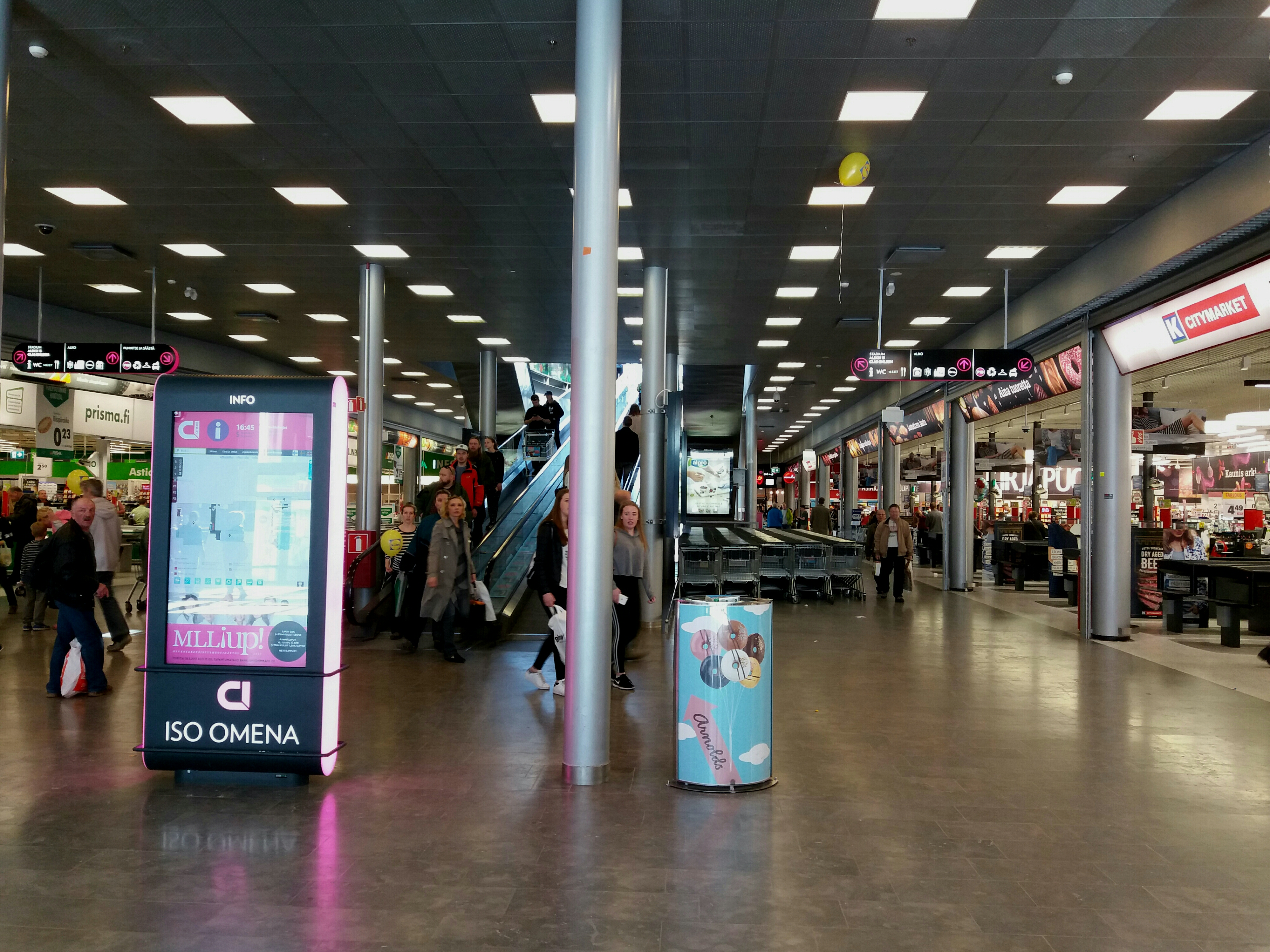 The hypermarket floor of Iso Omena shopping mall, Espoo, Finland